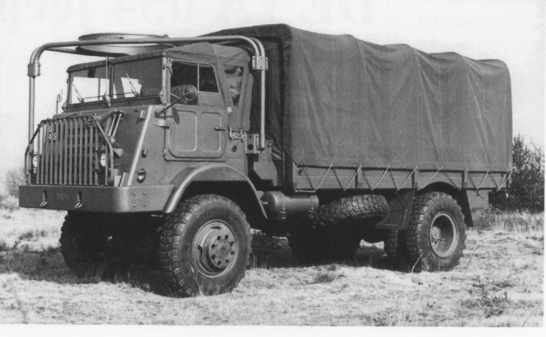 DAF YA 414 prototype (went into production, under DAF license, by Pegaso Trucks as Pegaso 3045D (Watch: de double wheels on the rear axle).